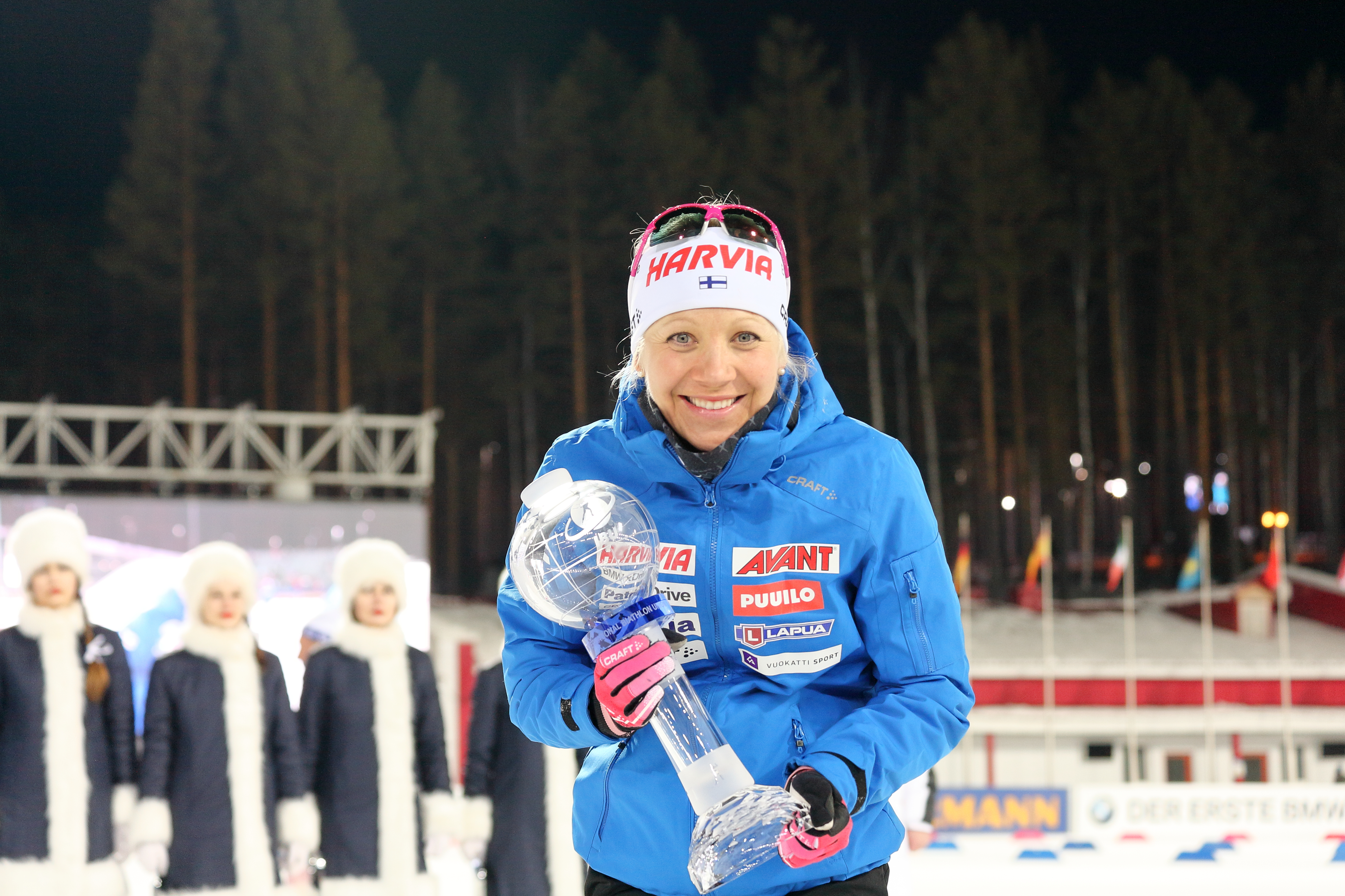 Big Crystal Globe trophy